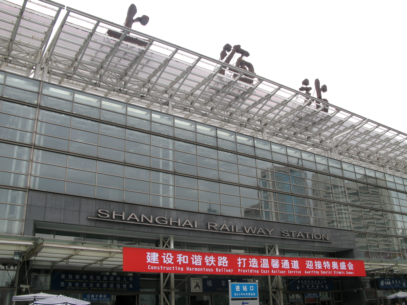 Shanghai Railway Station Enterance